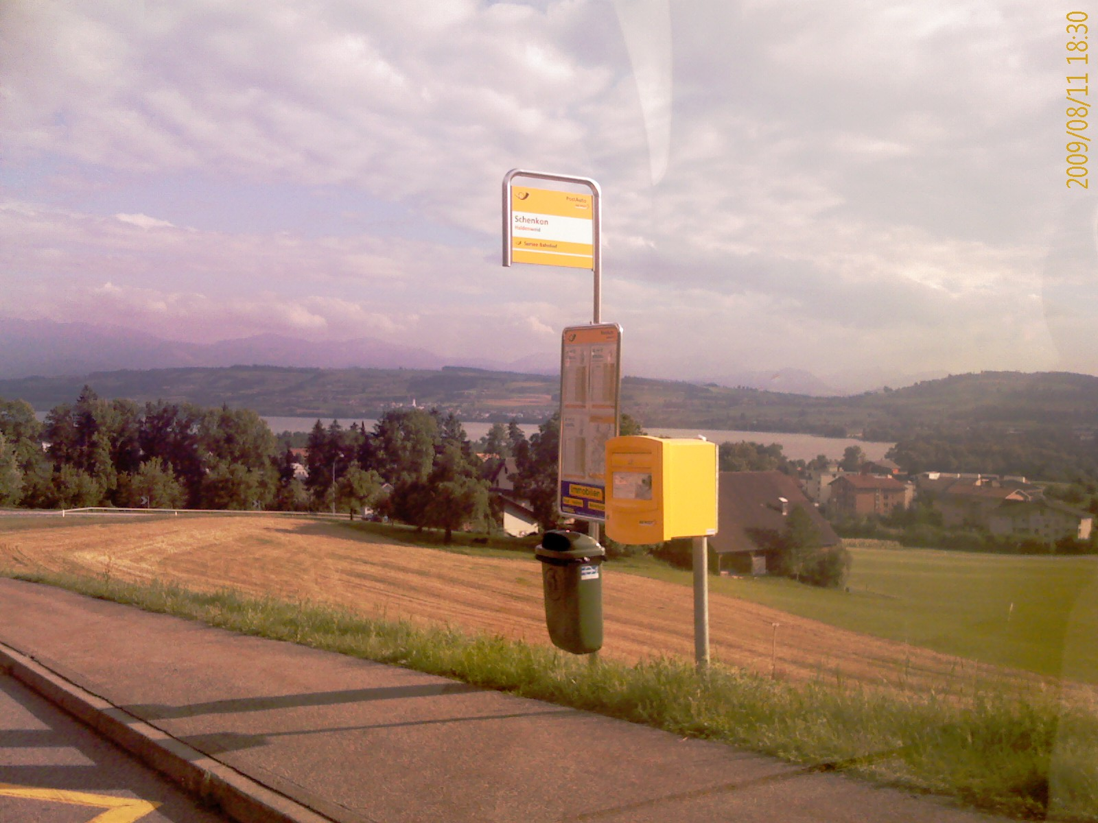 Panoramic view from bus stop Schenkon to the Lake Sempach, district Sursee, canton of Luzern, Switzerland. On the other side of Nottwil is visible.